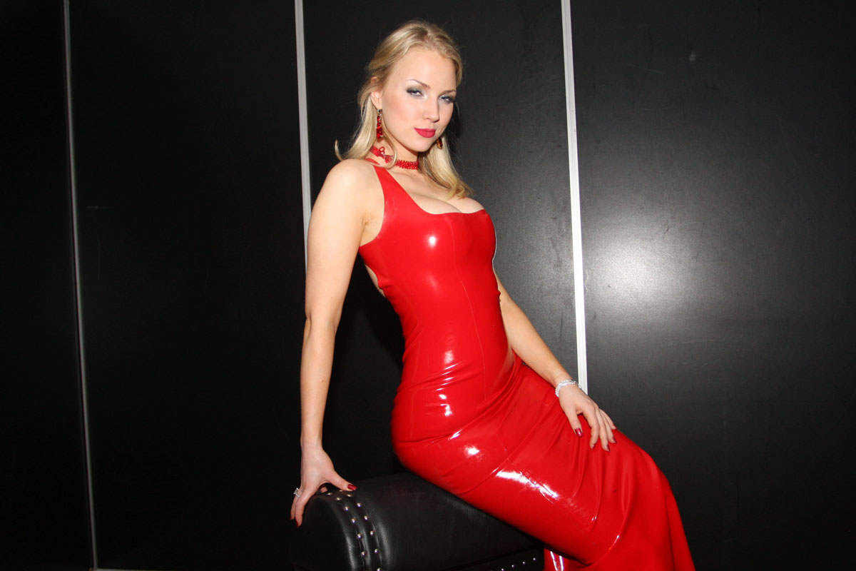 Ancilla Tilia in a mini Dungeon photo shoot